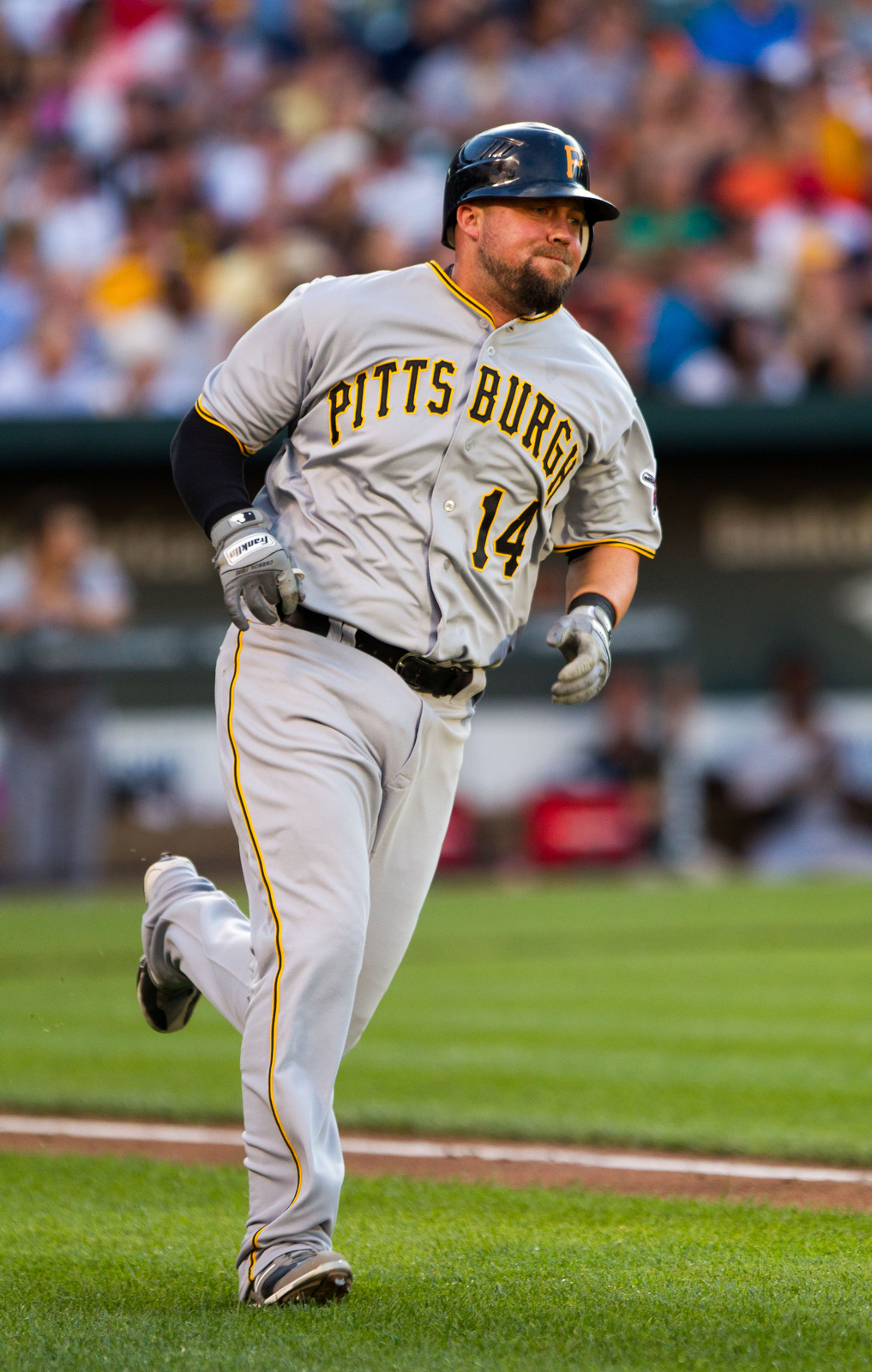 Casey McGehee